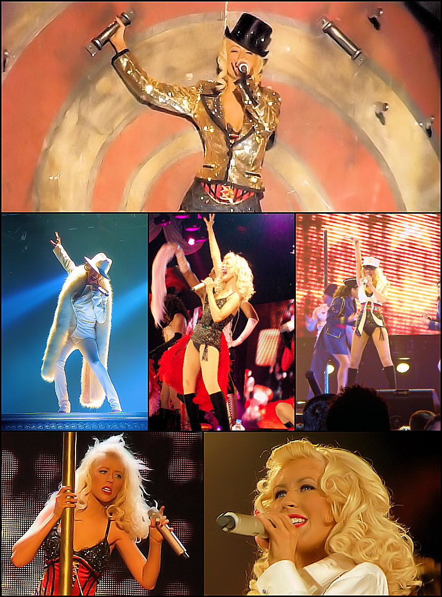 Christina Aguilera on her Back to Basics World Tour